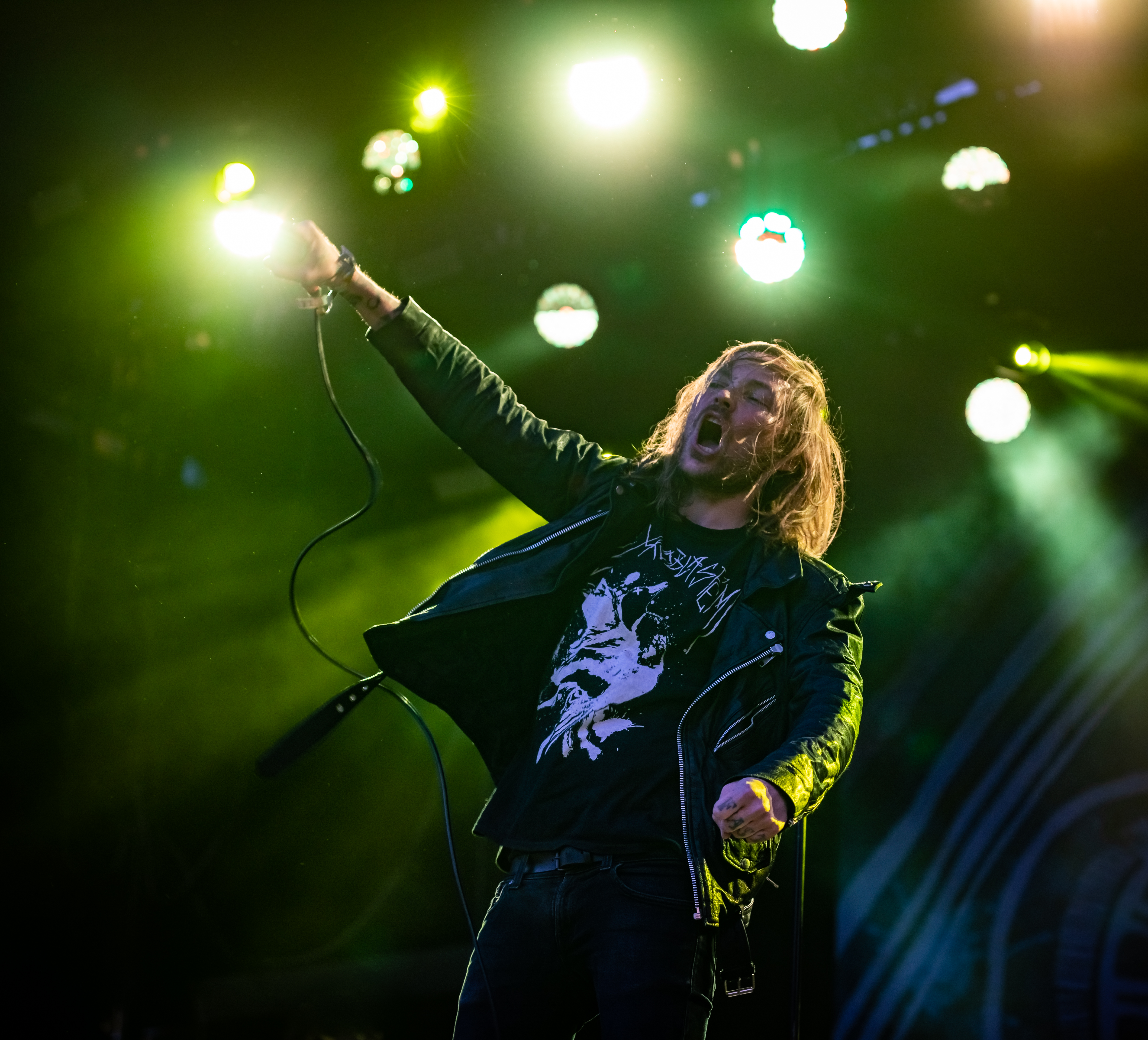 Kvelertak - Rock am Ring 2019